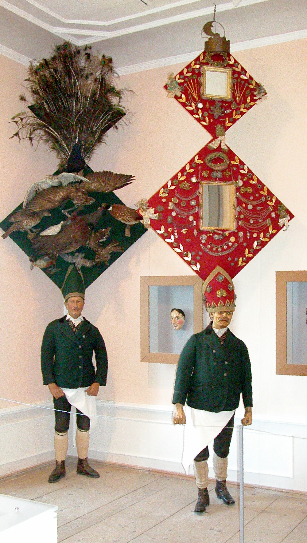 Schönpercht and Vogelprecht - Salzburg ethnological museum